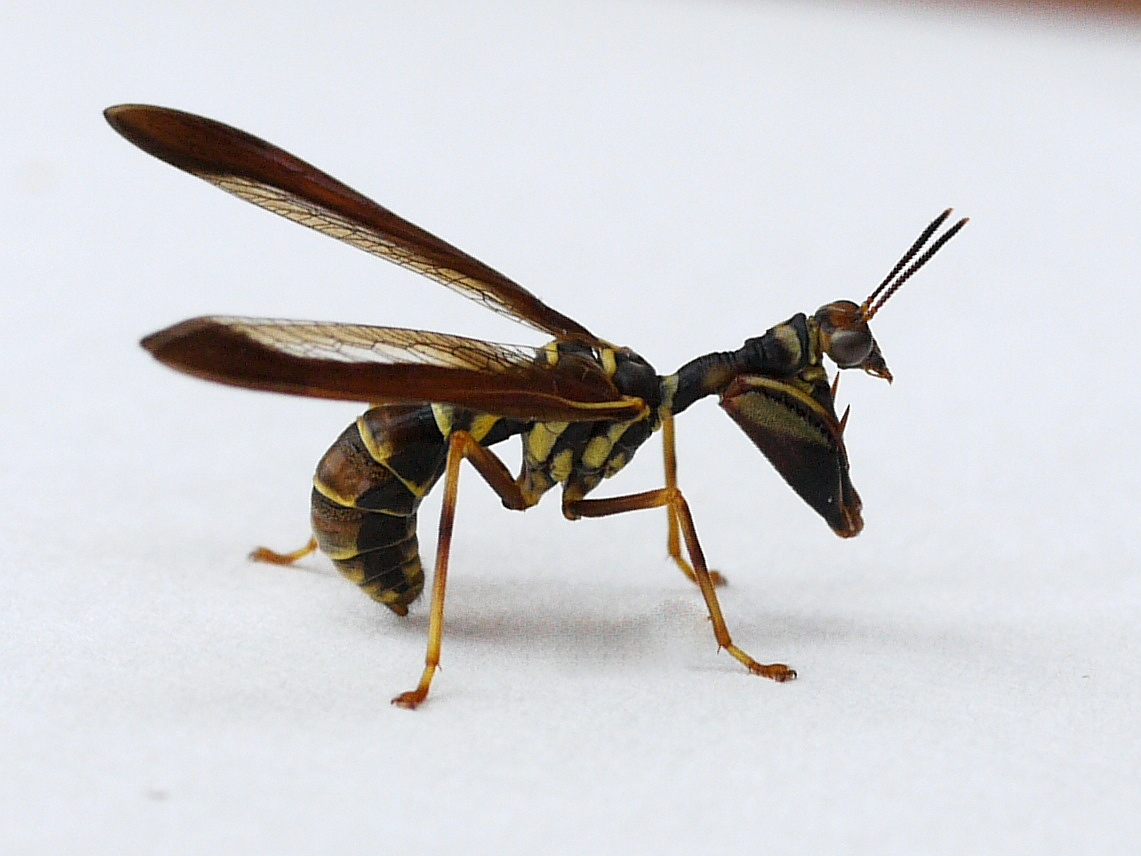 Climaciella brunnea - Wasp Mantidfly. Cross Plains, WI, USA